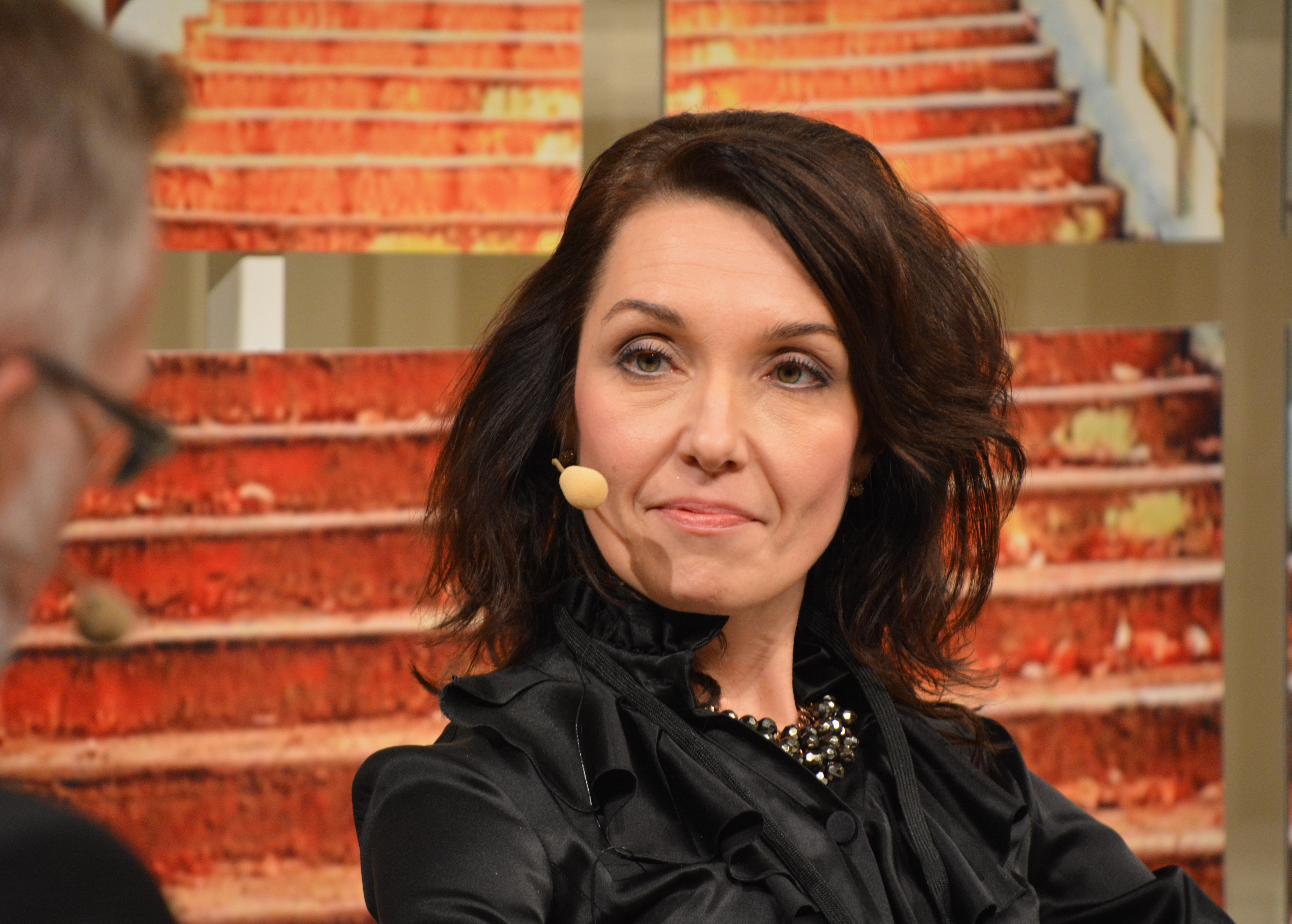 Miia Kivipelto, researcher in clinical geriatric epidemiology